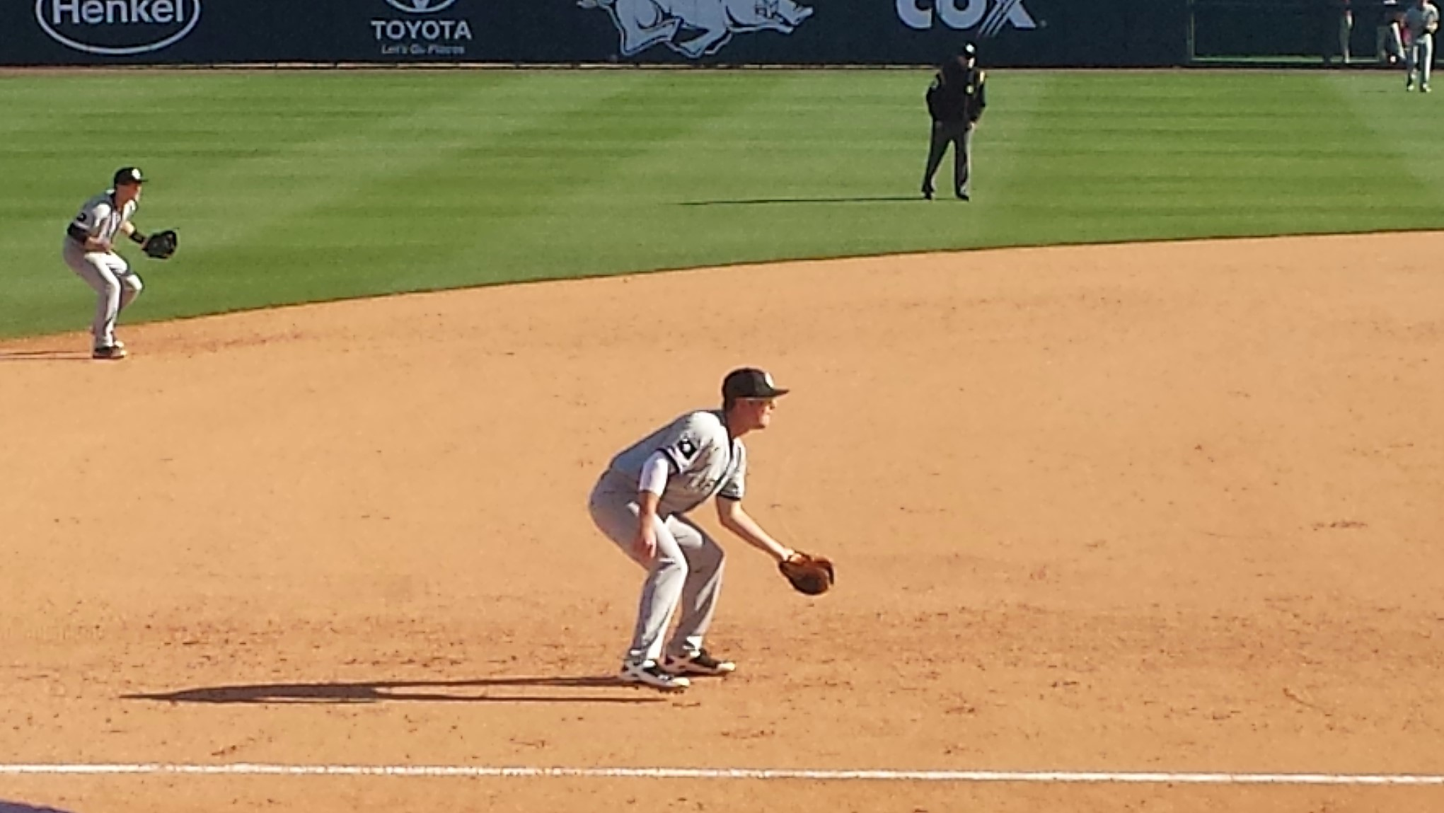 University of South Carolina Gamecocks baseball player LB Dantzler playing third base against the Arkansas Razorbacks in Baum Stadium, Fayetteville, AR